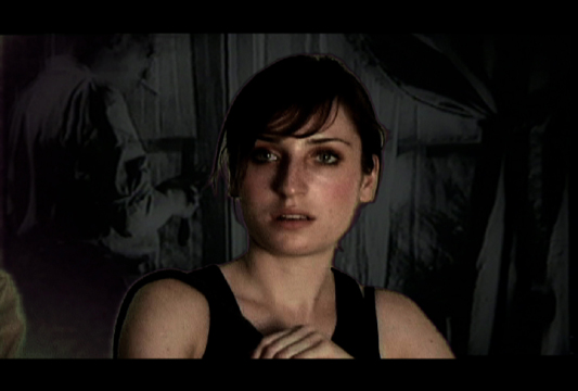 Zoe Lister-Jones, Screen grab from the 2005 interactive, playable movie, Palladio